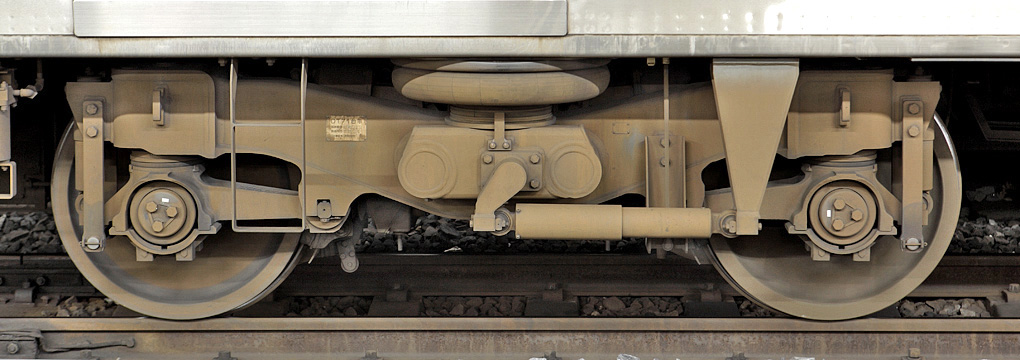 Type DT71 bogie truck of JR East E531 series EMU ( Moha E531-2007 ).